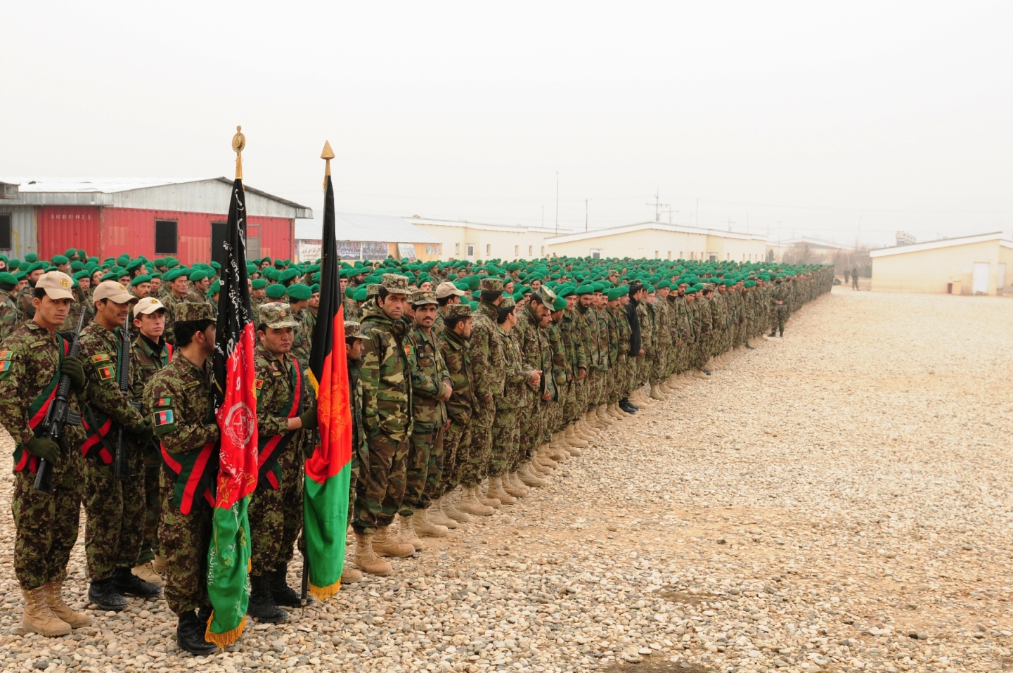 Afghan National Army recruits prepare for graduation from the Regional Basic Warrior Training course, Dec. 18 at the Regional Military Trainer Center, Camp Shaheen, near Mazar-e-Sharif, Afghanistan. During the two-months of training, 1,376 recruits learned the basic skills necessary to become a soldier and will now be added to the ranks of ANA forces throughout Afghanistan in support of the ongoing security transition. (Air Force photo by Tech. Sgt. Aaron Oelrich)